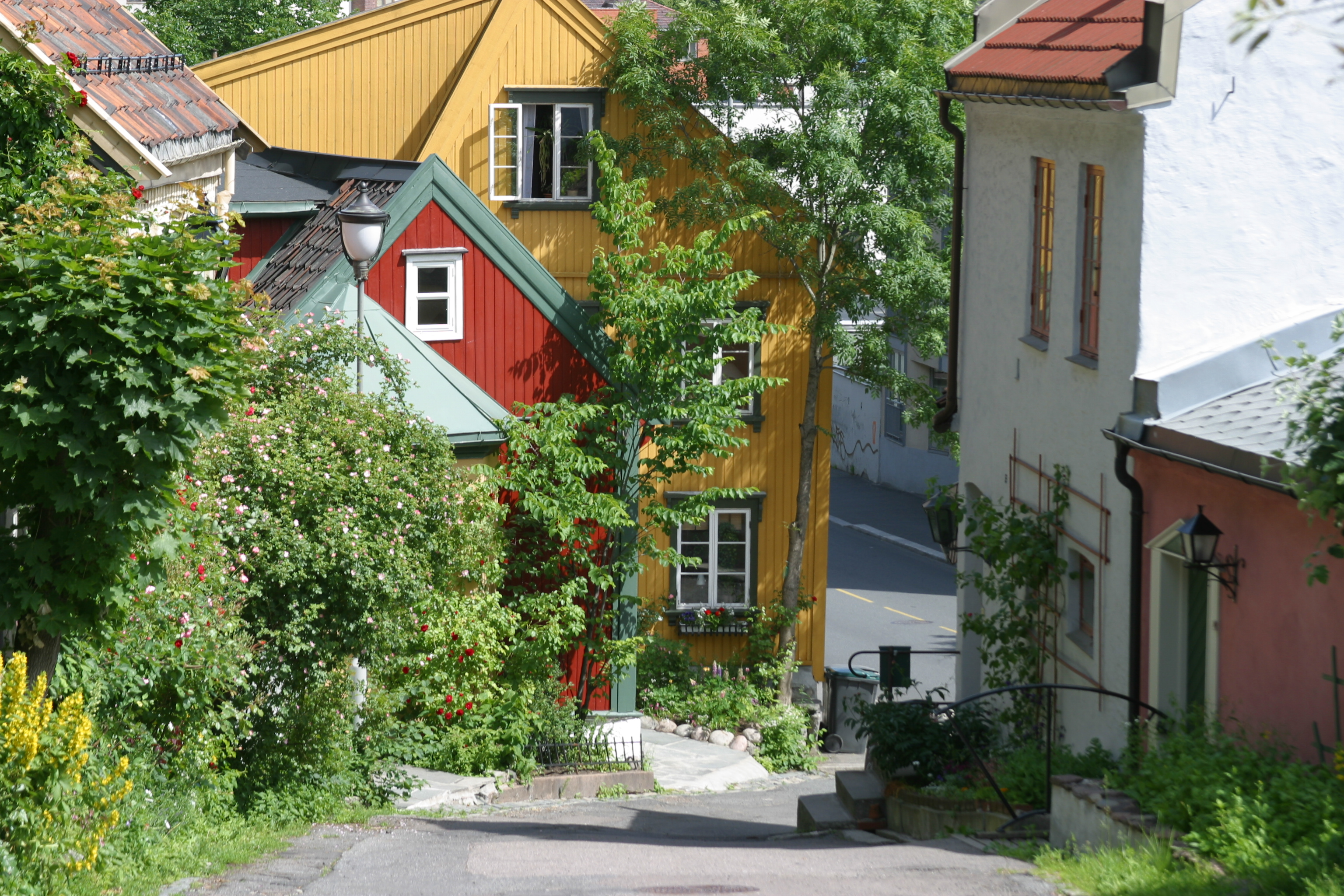 Picture of Damstredet (Oslo - Norway)